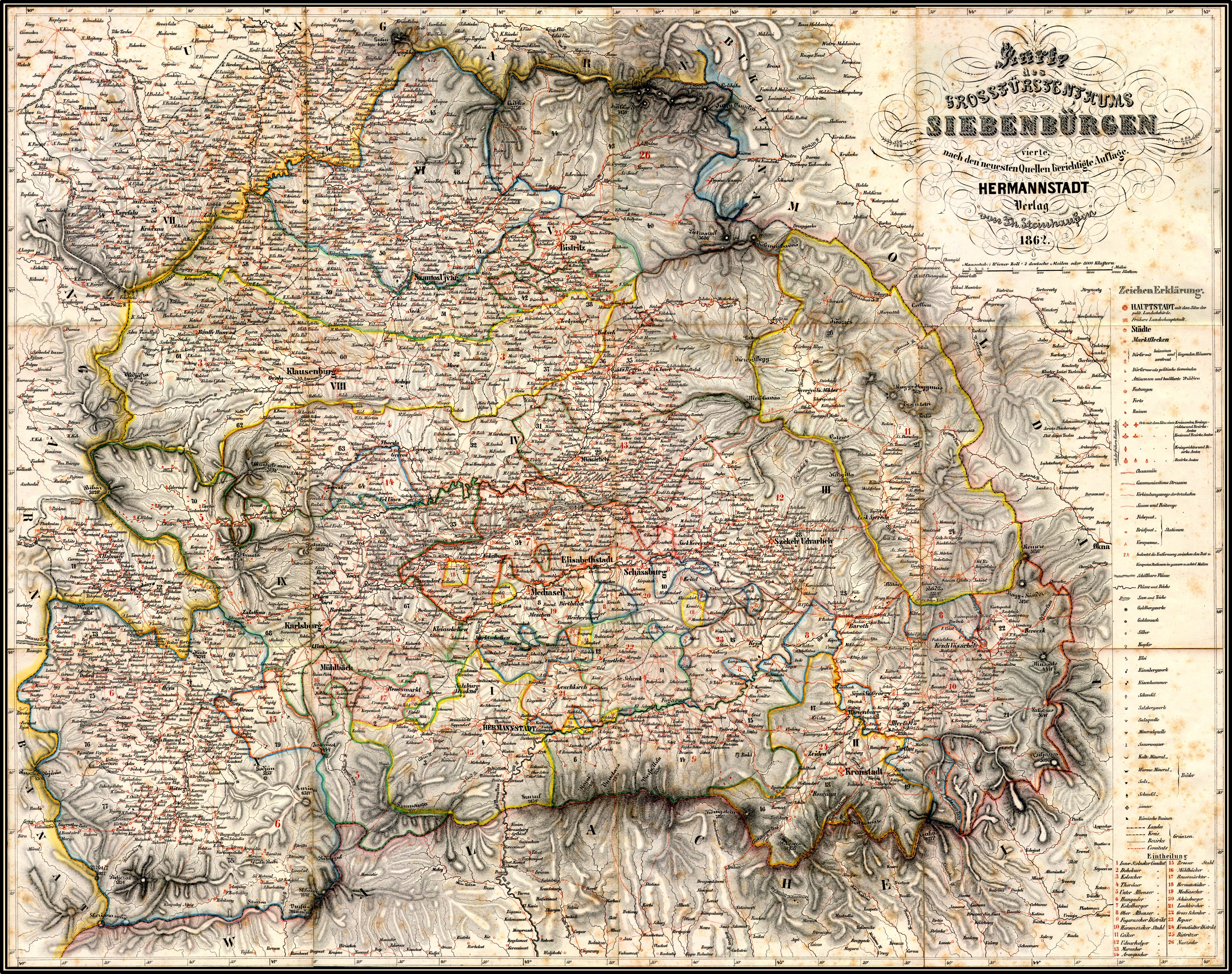 Map of the Grand Duchy of Transylvania, 1862